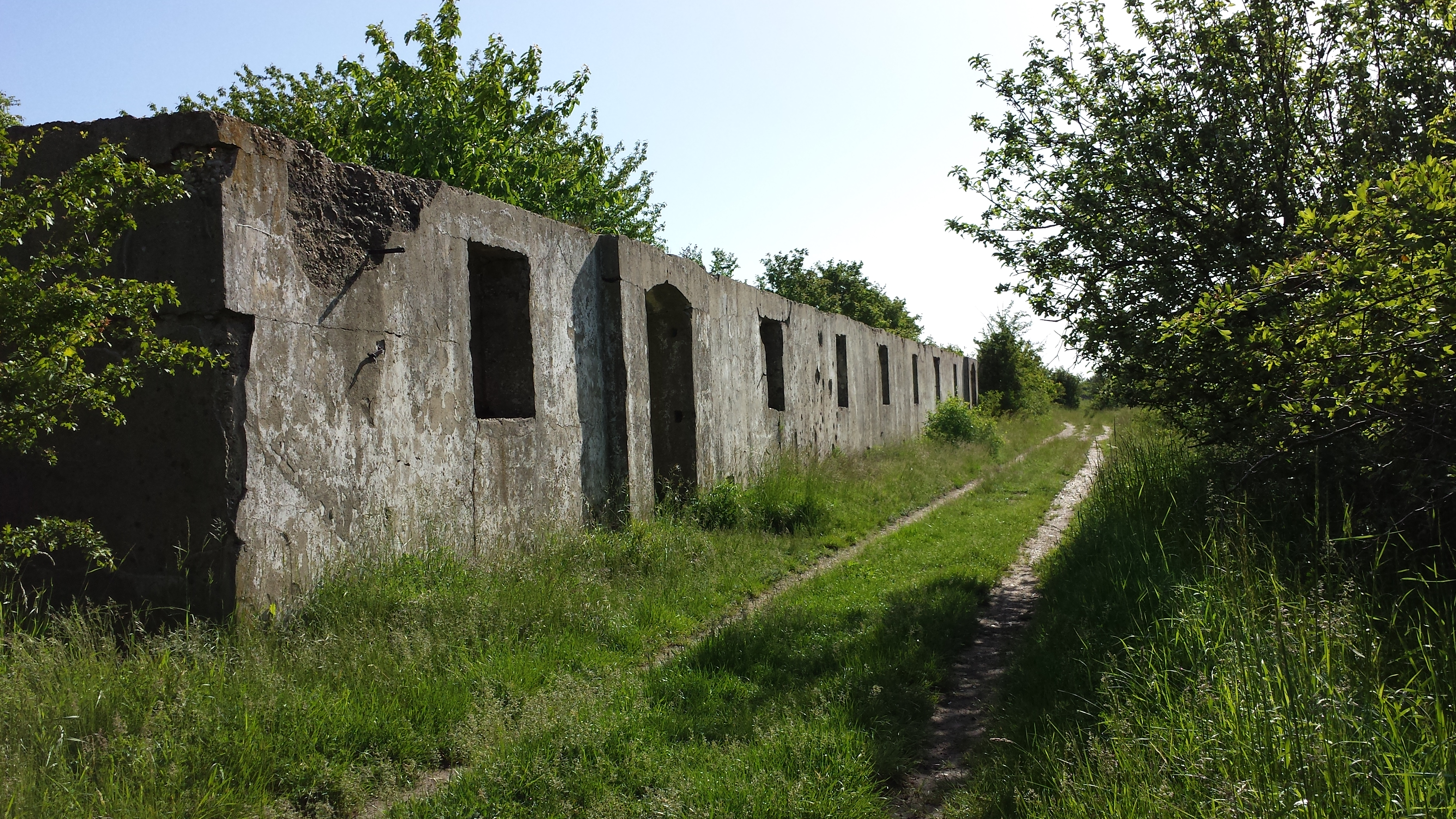 Natural monument "Alte Schanzen", Vienna-Floridsdorf; ruin at object X